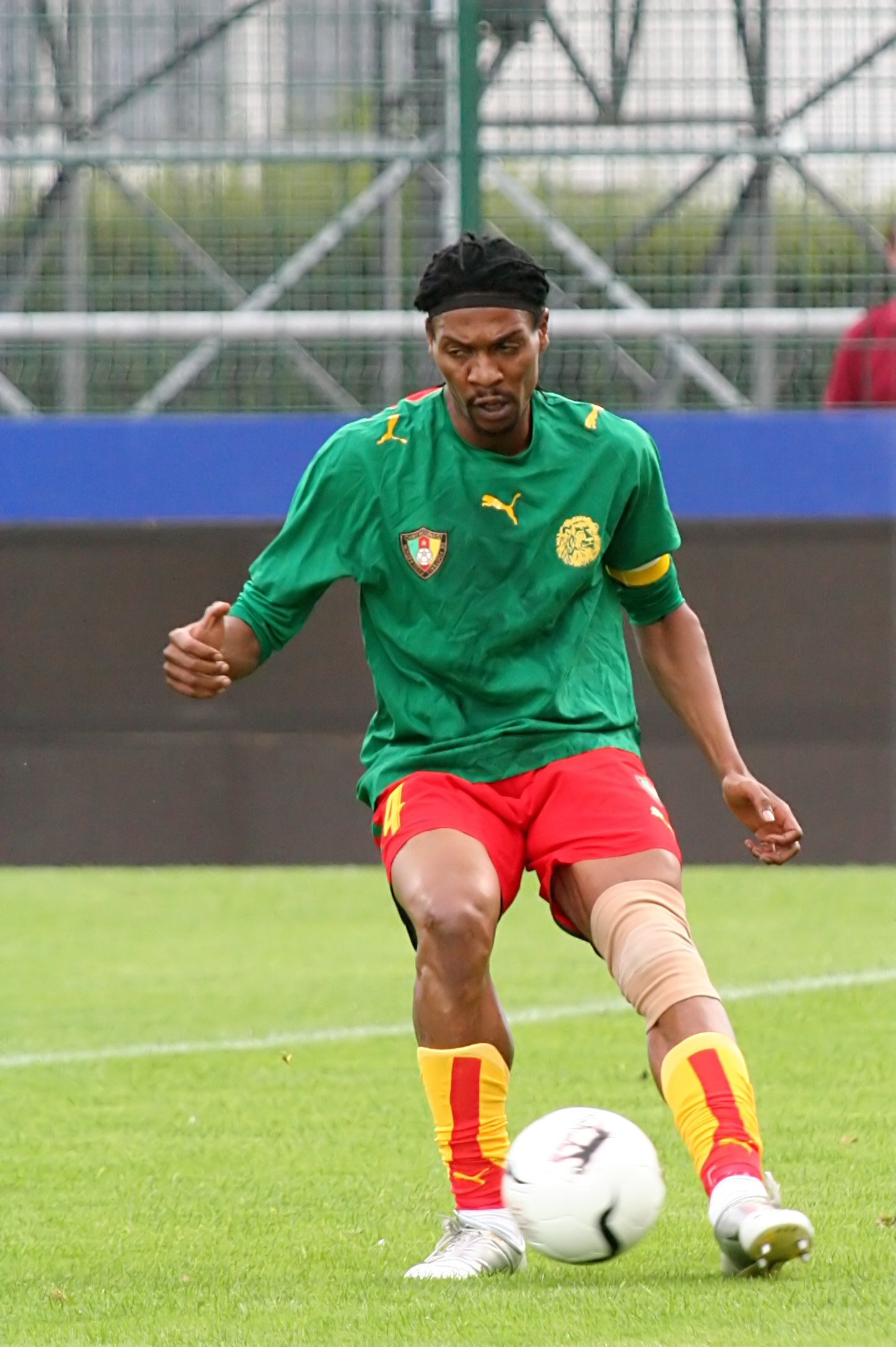 Rigobert Song during the Guinea-Cameroon friendly football game on on 16th August 2006 at Stade Robert Diochon in Rouen, France.